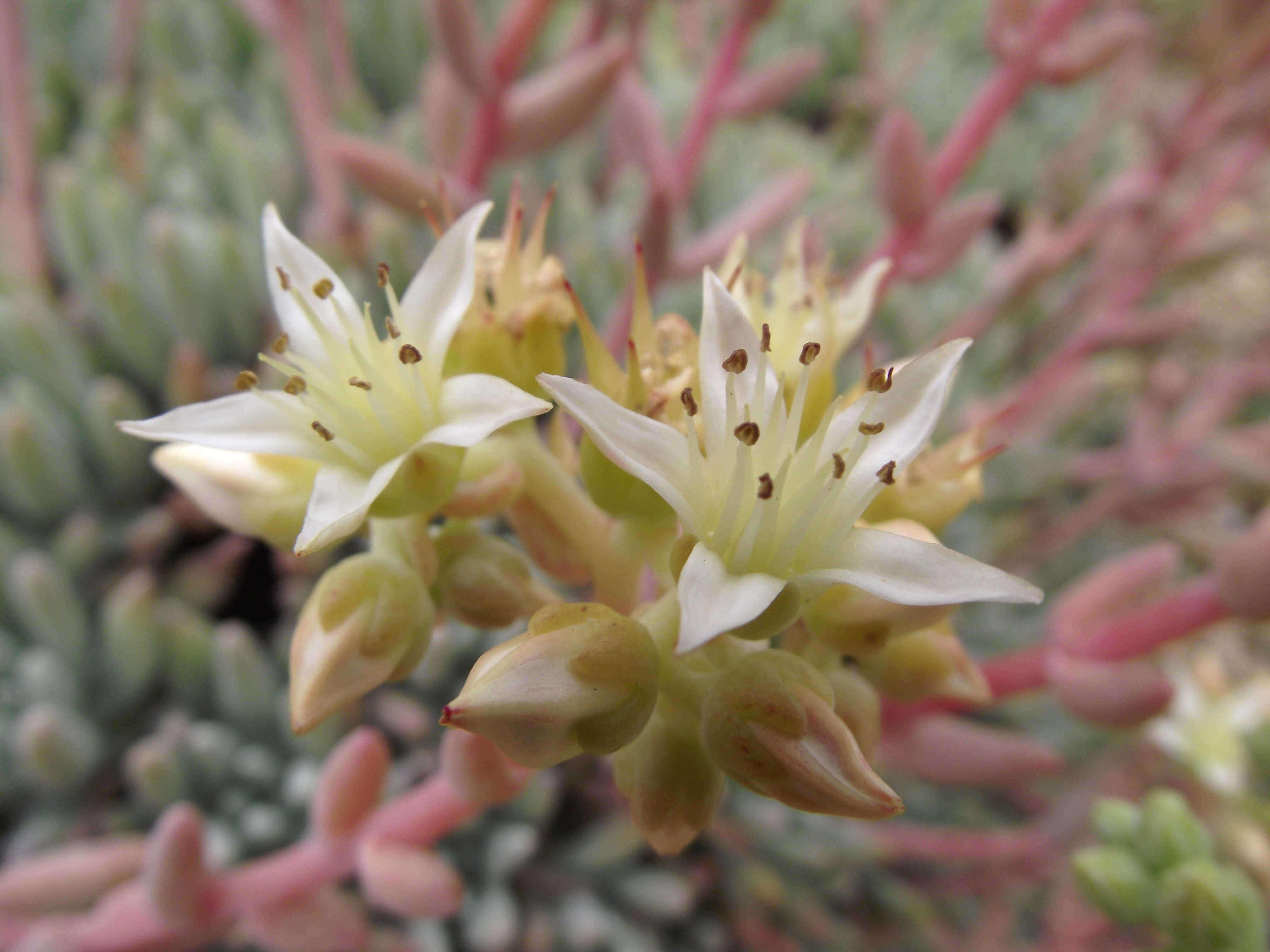 Dudleya virens ssp. hassei at Santa Barbara Botanic Garden, Santa Barbara, California, USA. Identified by sign.